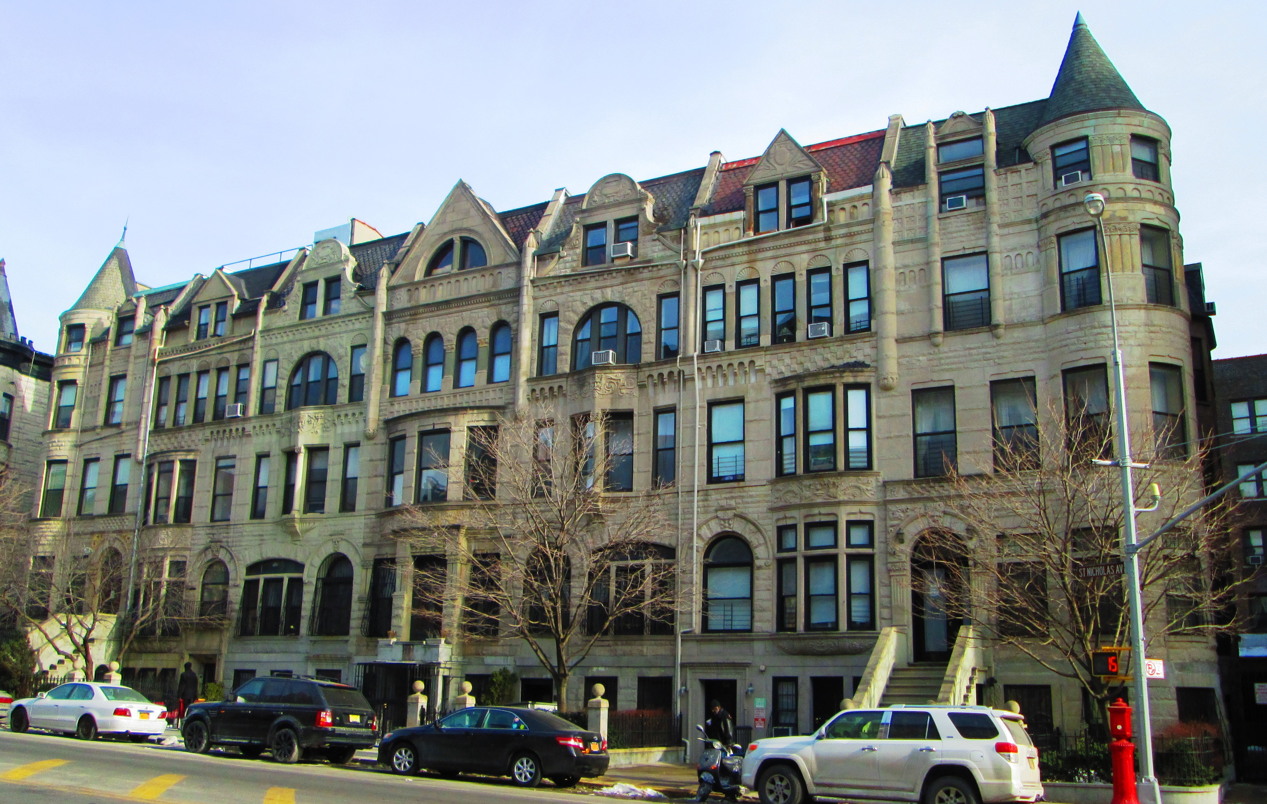 The block of row houses at 718 (right) - 730 (left) St. Nicholas Avenue at West 146th Street in the Hamilton Heights area of the Harlem neighborhood of Manhattan, New York City, was built in 1889-90 and was designed in the Romanesque Revival style by Arthur Bates Jennings. They are located in New York City's Hamilton Heights/Sugar Hill Historic District. (Source: Guide to NYC Landmarks (4th ed.))